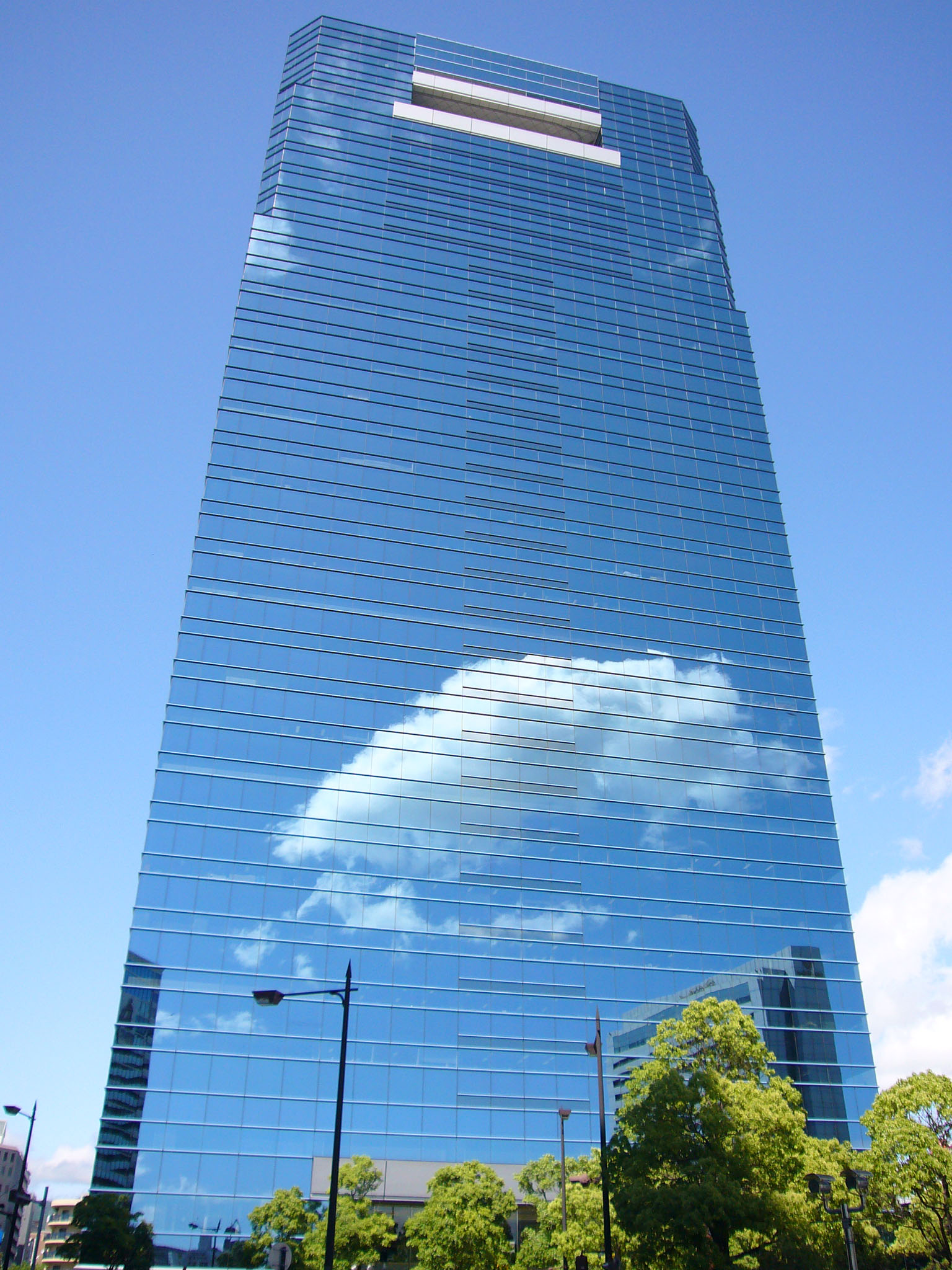 Kobe Crystal tower in Kobe, Japan